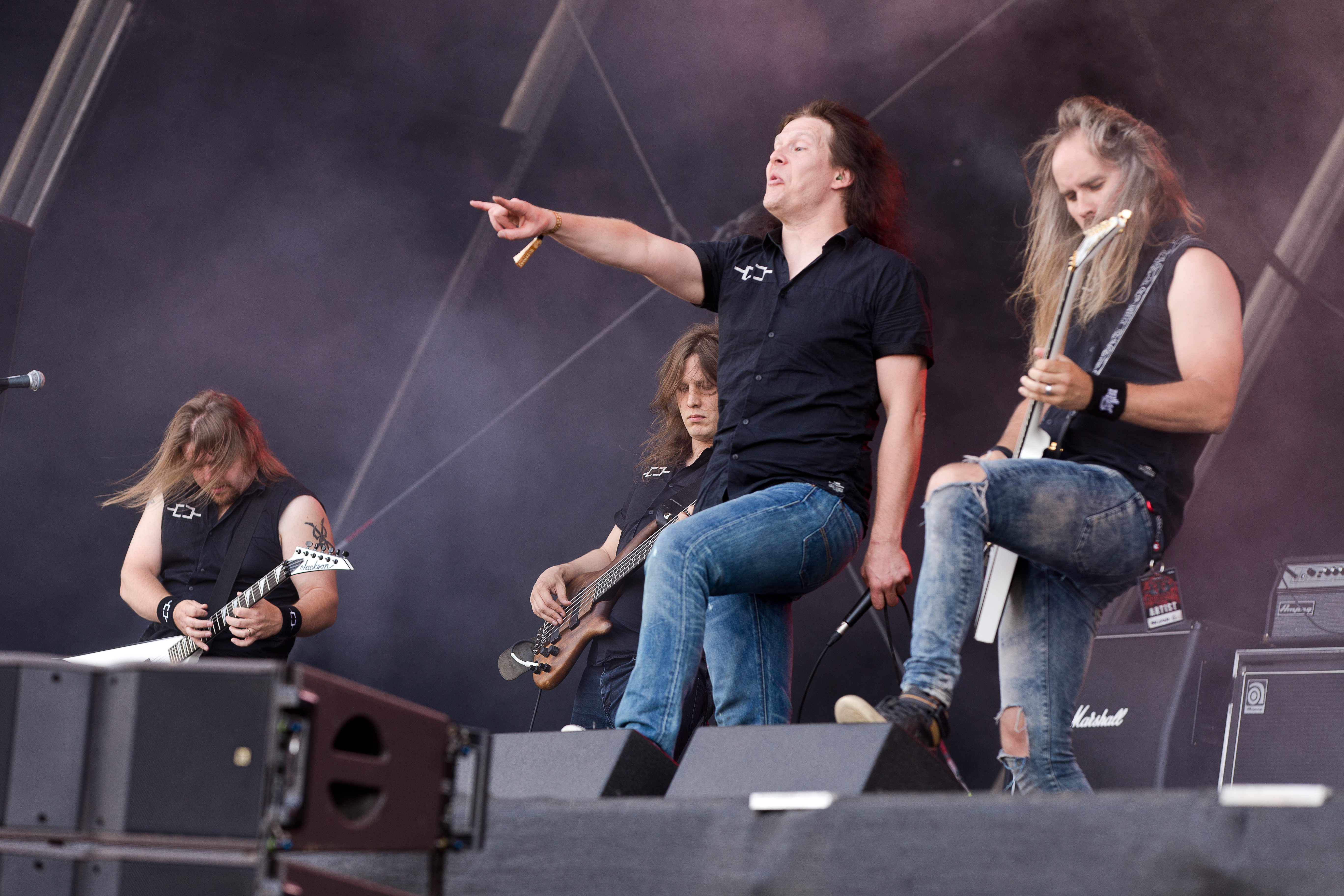 The Finnish melodic death metal band Omnium Gatherum at the Rockharz Open Air 2016 in Ballenstedt/Germany.